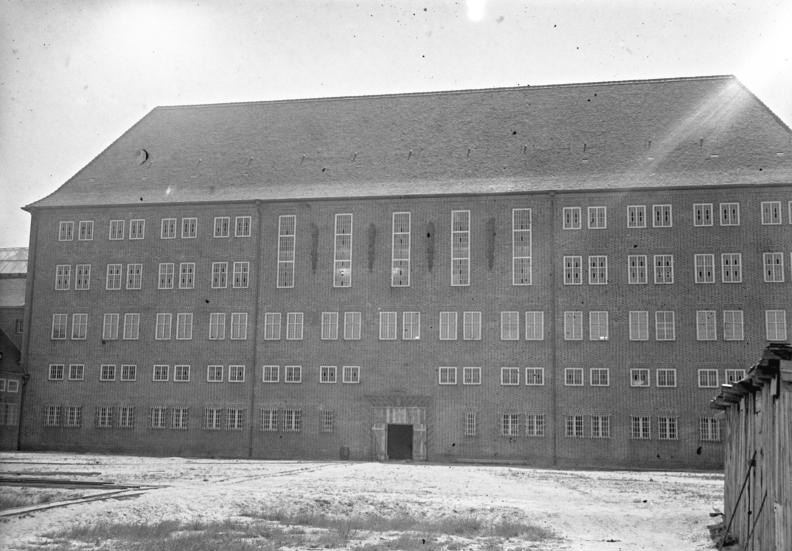 Das modernste Zuchthaus Europas in Brandenburg a/Havel geht seiner Vollendung entgegen! Blick auf das Hauptgebäude des modernsten Zuchthauses, welches jetzt fertiggestellt wurde. Information added by Wikimedia users.(original historic description) Europe's most modern penal labor penitentiary in Brandenburg an der Havel is nearing completion! View of the main building of the most modern penitentiary, which has now been finished.